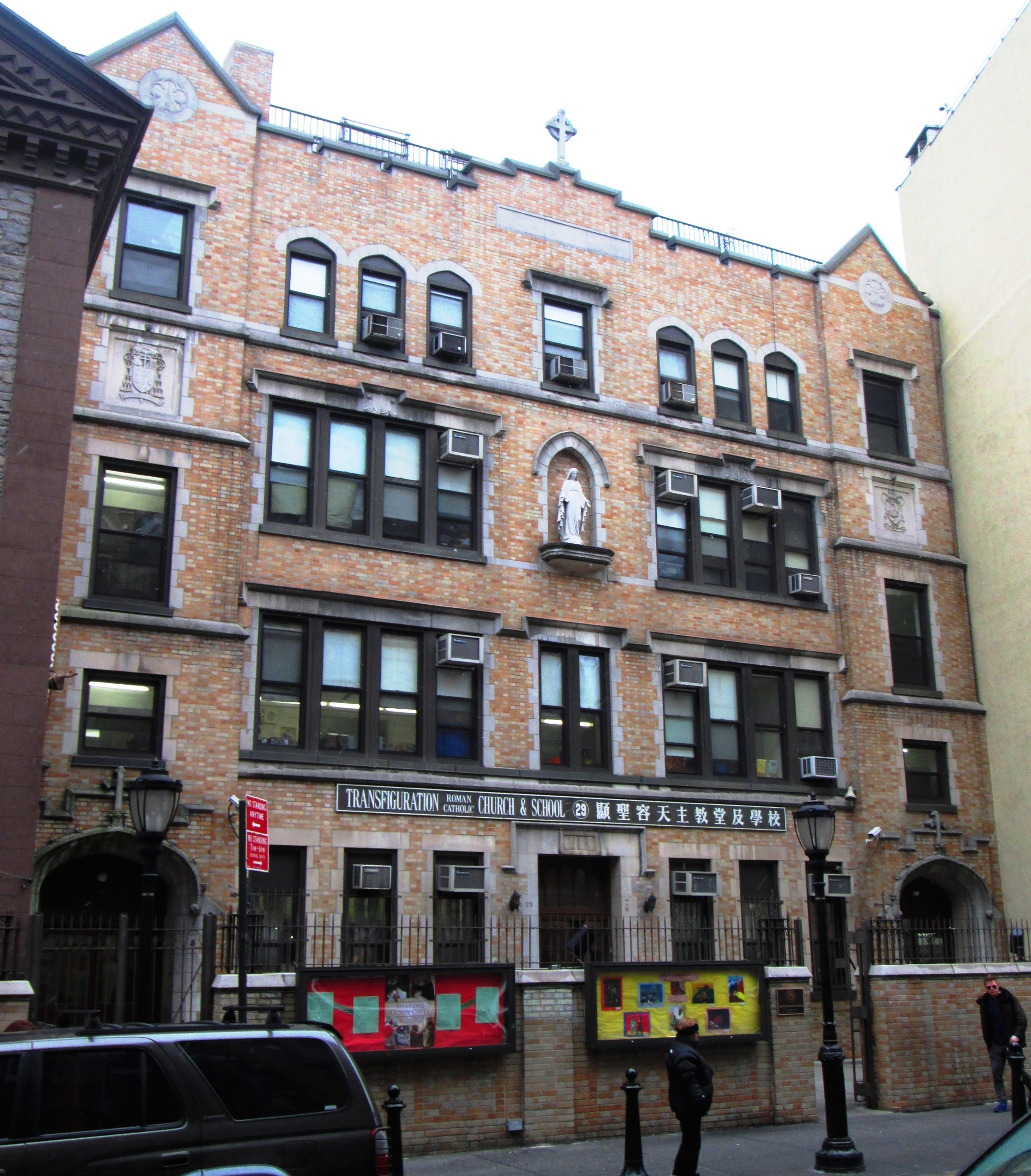 The Roman Catholic Church of the Transfiguration at 25 Mott Street between Mosco and Pell Streets in the Chinatown neighborhood of Manhattan, New York City, was built in 1801 as the Zion English Lutheran Church later the Zion Protestant Episcopal Church, and was designed in the Georgian style. It was sold in 1853 to the Roman Catholic Church of the Immigrants, which later changed its name to the Church of the Transfiguration. The Transfiguration School associated with the church was founded in 1832 and open to children of all faiths in 1969. It has three campuses.